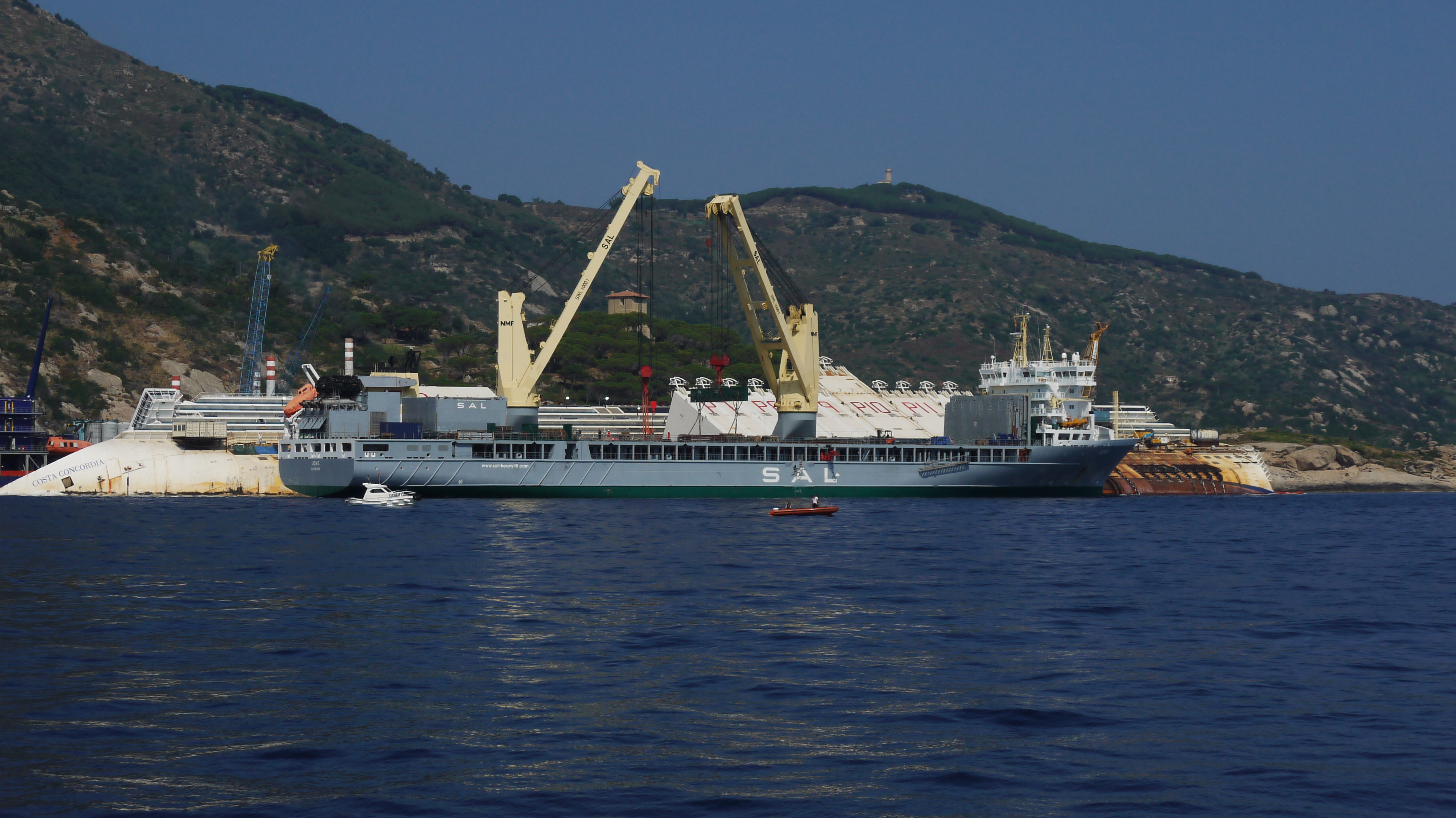 Costa Concordia Shipwreck and SAL Lone heavy lift vessel at Isola del Giglio, July 2013